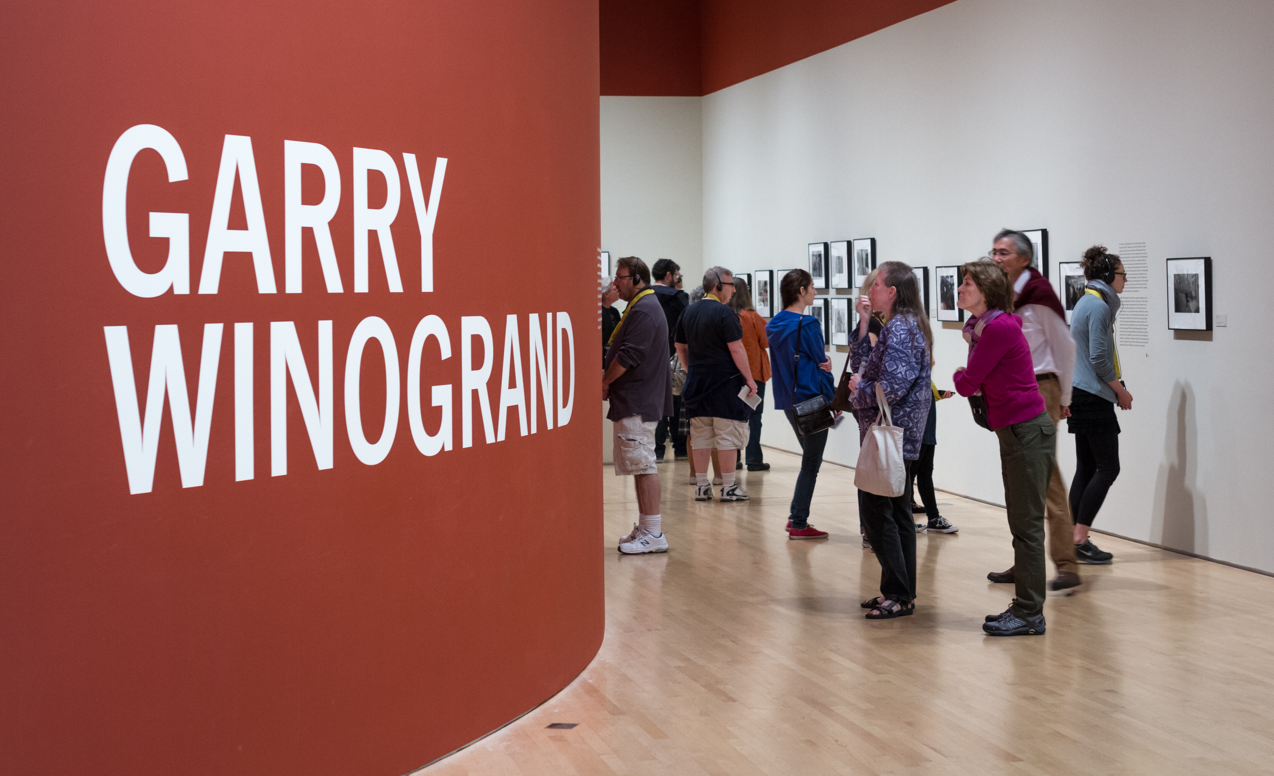 Exhibition "Gary Winogrand" at the San Francisco Museum of Modern Art, 2013